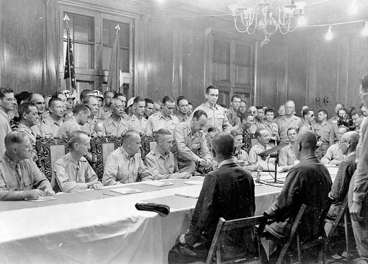 Photo #: NH 97276 Surrender of Japanese Forces in the Philippines, 1945 Surrender ceremonies at Baguio, Luzon, on 3 September 1945. The Japanese commander, General Tomoyuki Yamashita, is seated in the middle on the near side of the table. Seated on the opposite side, second from left, is Lieutenant General Jonathan M. Wainwright, U.S. Army. Toward the right end of the table, immediately to the left of Gen. Yamashita's head, is Commodore Norman C. Gillette, USN, Deputy Commander, Philippine Sea Frontier. U.S. Naval Historical Center Photograph.